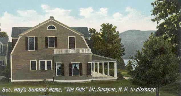 "The Fells" (summer home of John Milton Hay) & Mount Sunapee, Newbury, New Hampshire; from a c. 1905 postcard.